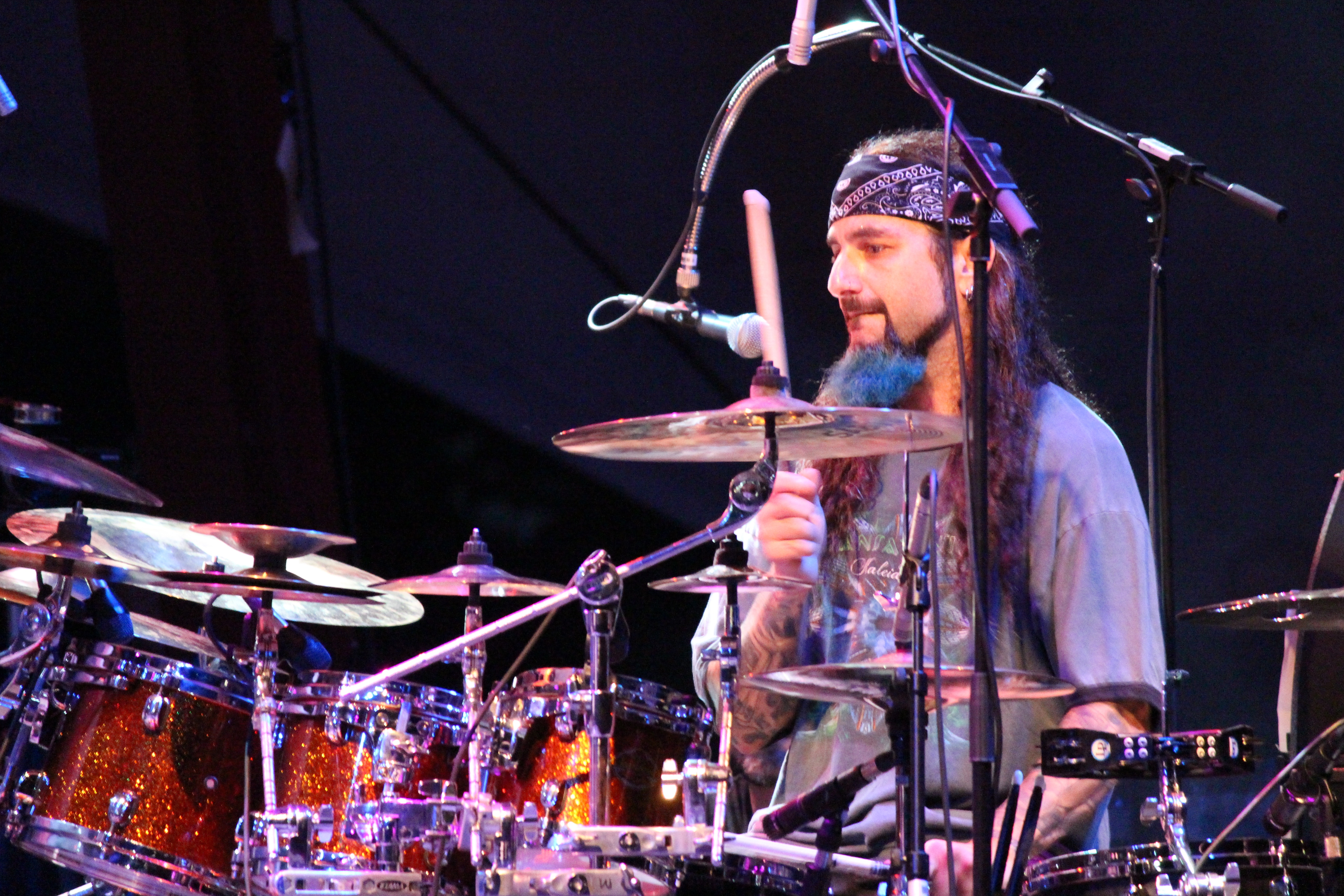 Transatlantic au Night of the Prog Festival, 18 juillet 2014